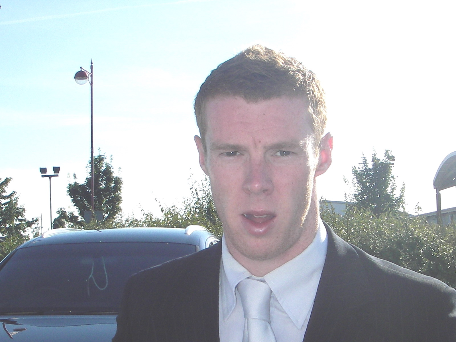 Stephen Pearson, Scottish footballer.